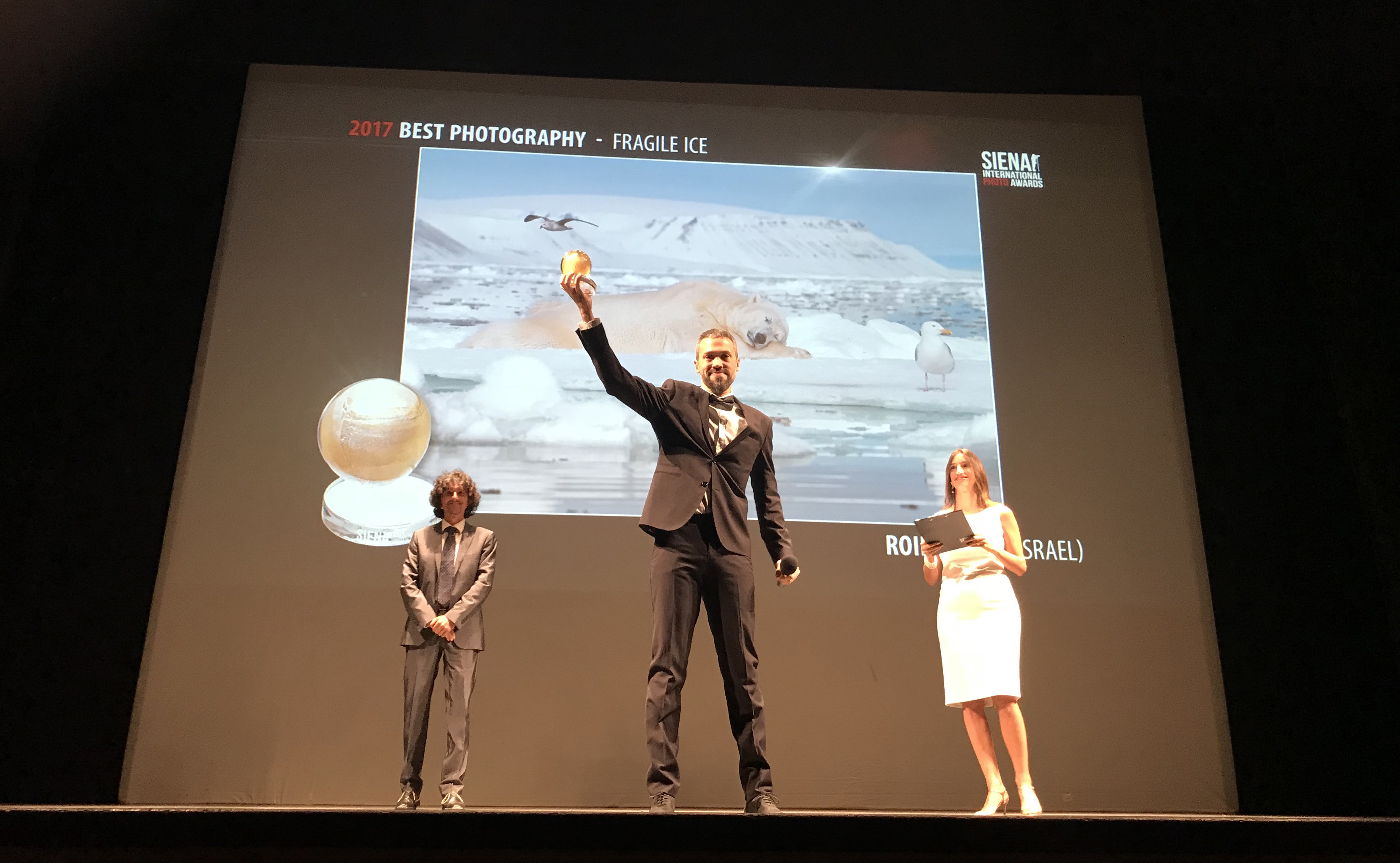 Roie Galitz winning a 1st prize for the category in Siena International Photography Awards 2017